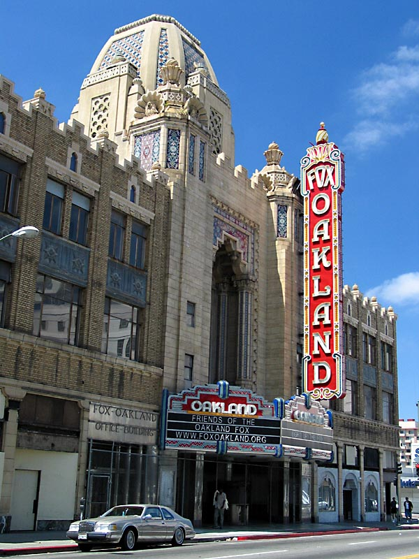 The Fox Oakland Theatre — Telegraph Avenue facade with marquee. Built 1928, on the National Register of Historic Places.